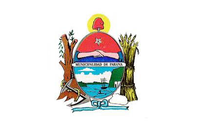 Flag of the city of Paraná in Entre Ríos Province, Argentina. On the centre, the coat of arms designed by Santos Domínguez y Benguria in 1877.